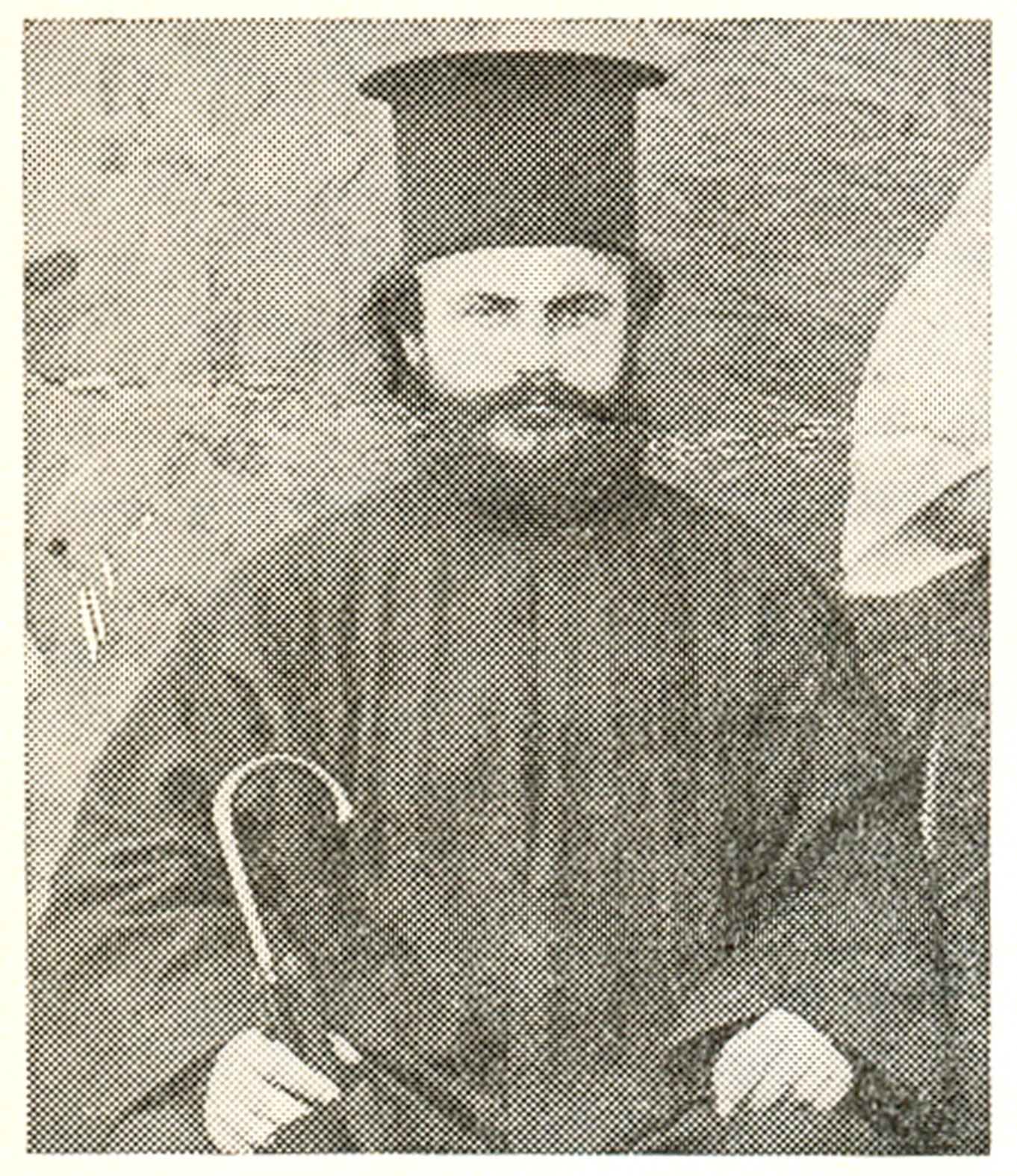 Very Reverend Archpriest Filip Vuchkov, Buf, Lerinsko 1879-1951